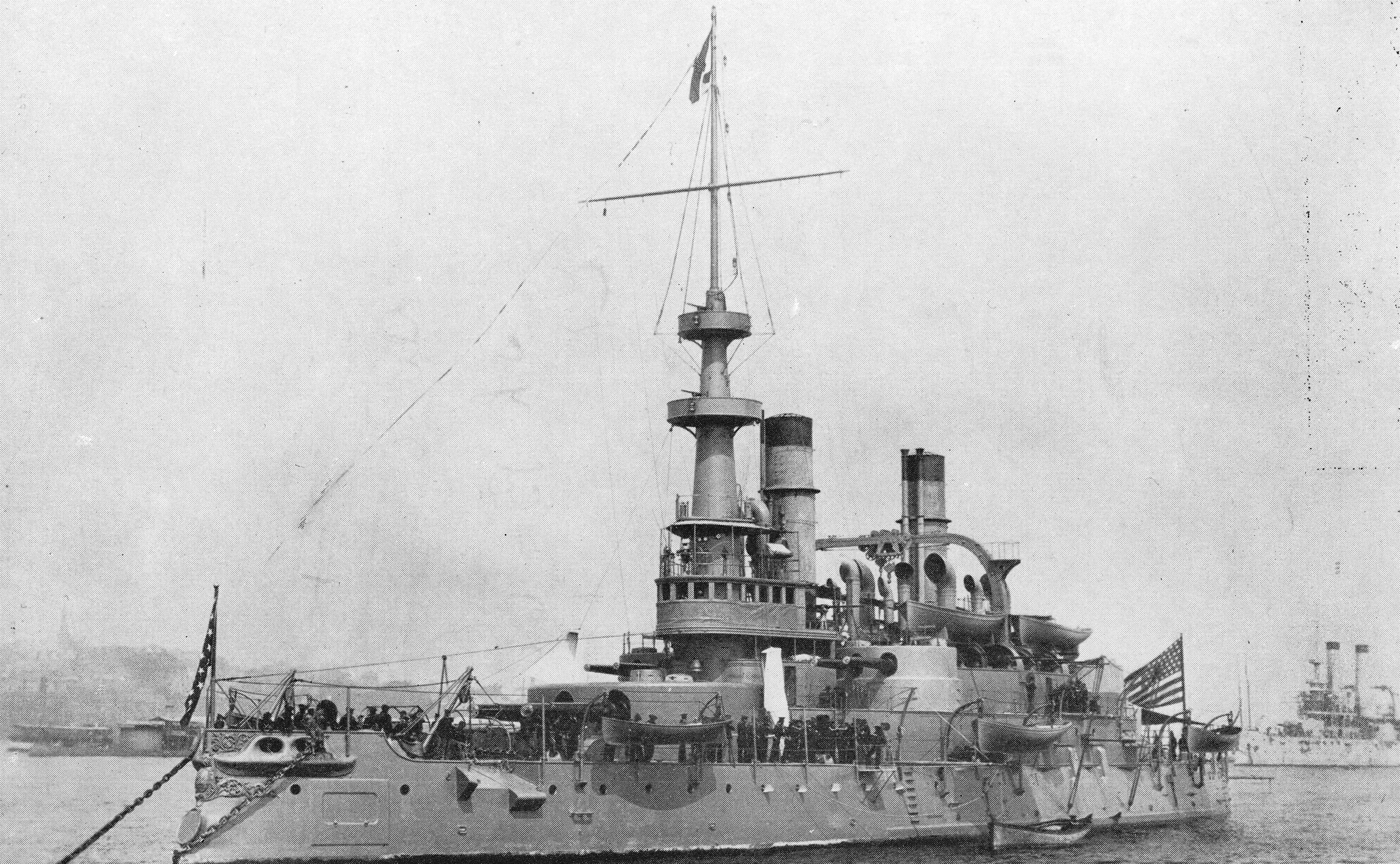 Post war picture of the "Indiana", ship behind her is probably "Iowa"